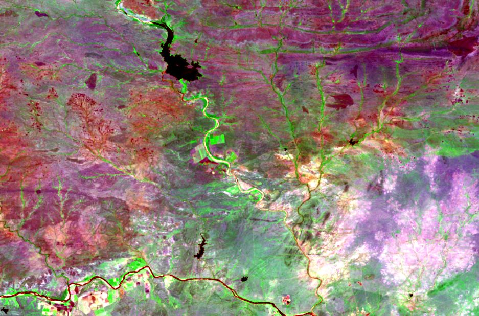 False colour composite showing of the lower Mzingwane River, Zimbabwe. Data source: scene path170 row075 dated 3 December 2000 supplied by Global land Cover Facility Ref.: Love, D., Love, F., Owen, R.J.S., Uhlenbrook, S. and van der Zaag, P. 2008. Impact of the Zhovhe Dam on the lower Mzingwane River channel. In: Humphreys, E., Bayot, R.S., van Brakel, M., Gichuki, F., Svendsen, M., Wester, P., Huber-Lee, A., Cook, S., Douthwaite, B., Hoanh, C.T., Johnson, N., Nguyen-Khoa, S., Vidal, A. and MacIntyre, I. (eds.). Fighting Poverty Through Sustainable Water Use: Proceedings of the CGIAR Challenge Program on Water and Food 2nd International Forum on Water and Food, Addis Ababa, Ethiopia, November 10 – 14 2008, IV. The CGIAR Challenge Program on Water and Food, Colombo, pp46-51.